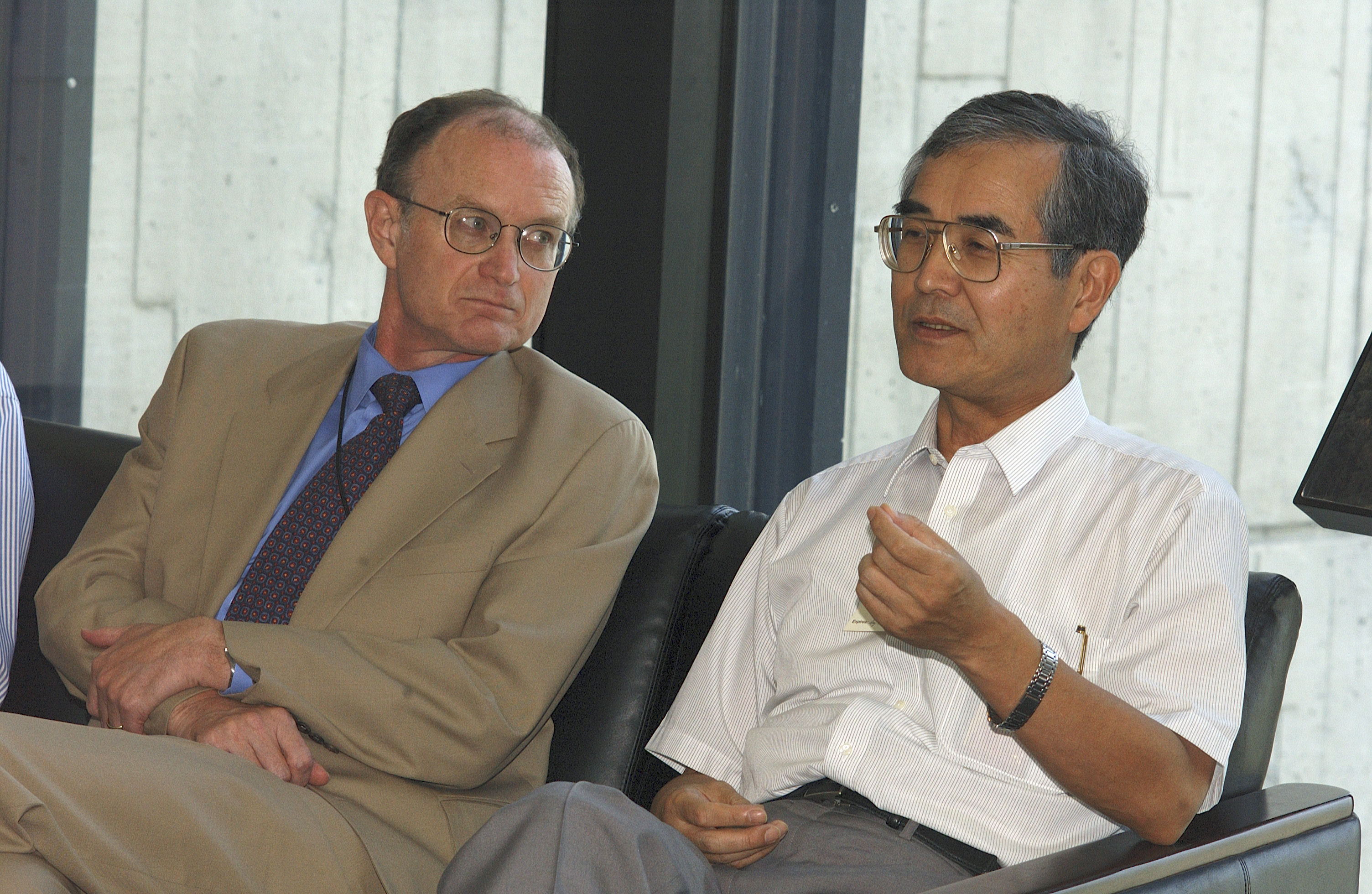 Michael Witherell, Director of the Fermi National Accelerator Laboratory, and Yōji Totsuka, Director General of the High Energy Accelerator Research Organization, attended the "Lepton Photon Conference" at the Fermi National Accelerator Laboratory in Illinois State on August 15, 2003.